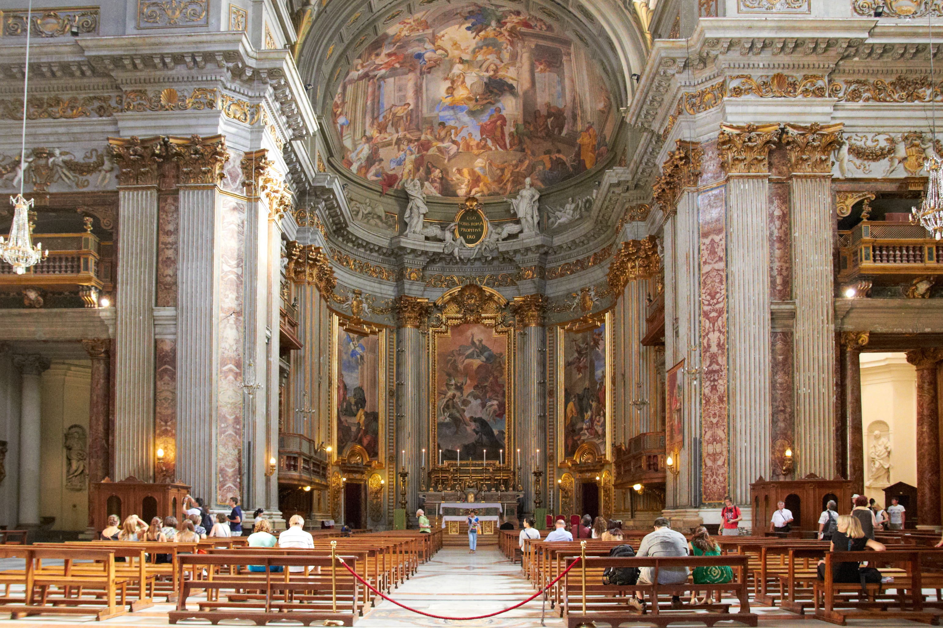 Church of St. Ignatius of Loyola at the Campus Martius